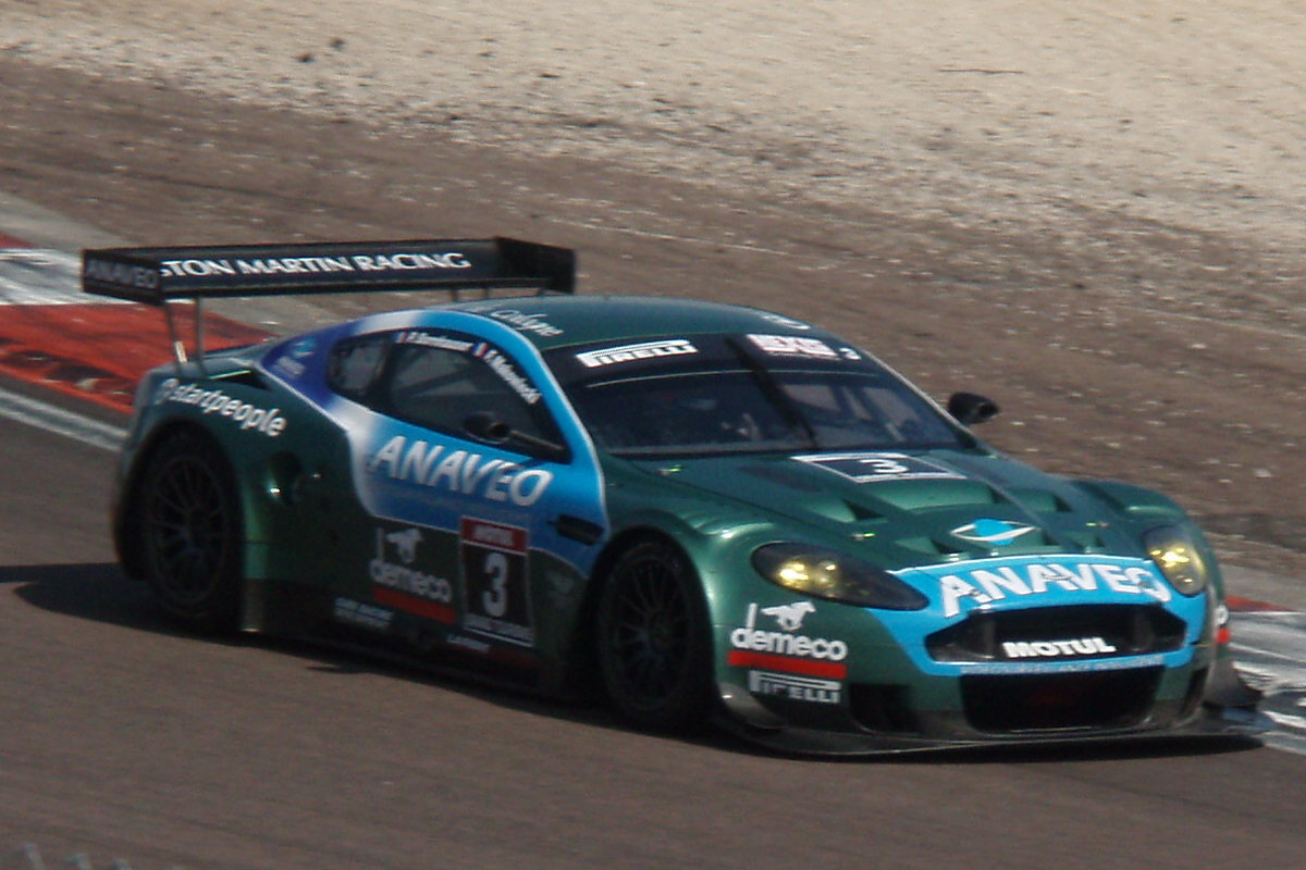 An Aston-Martin DBR9 during the 2007 FFSA Super Séries races in Dijon-Prenois.